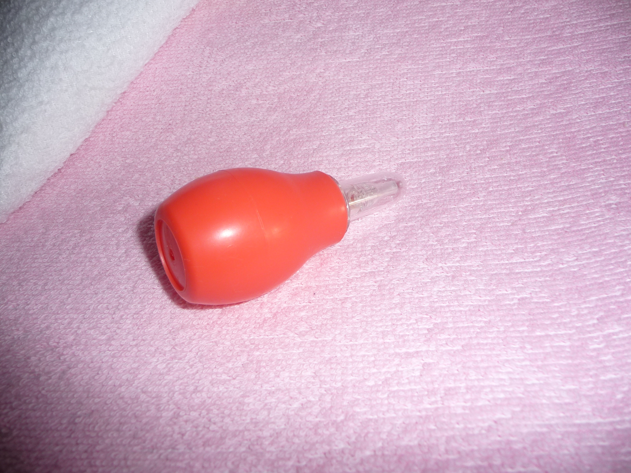 Suction Trap that works by pumping